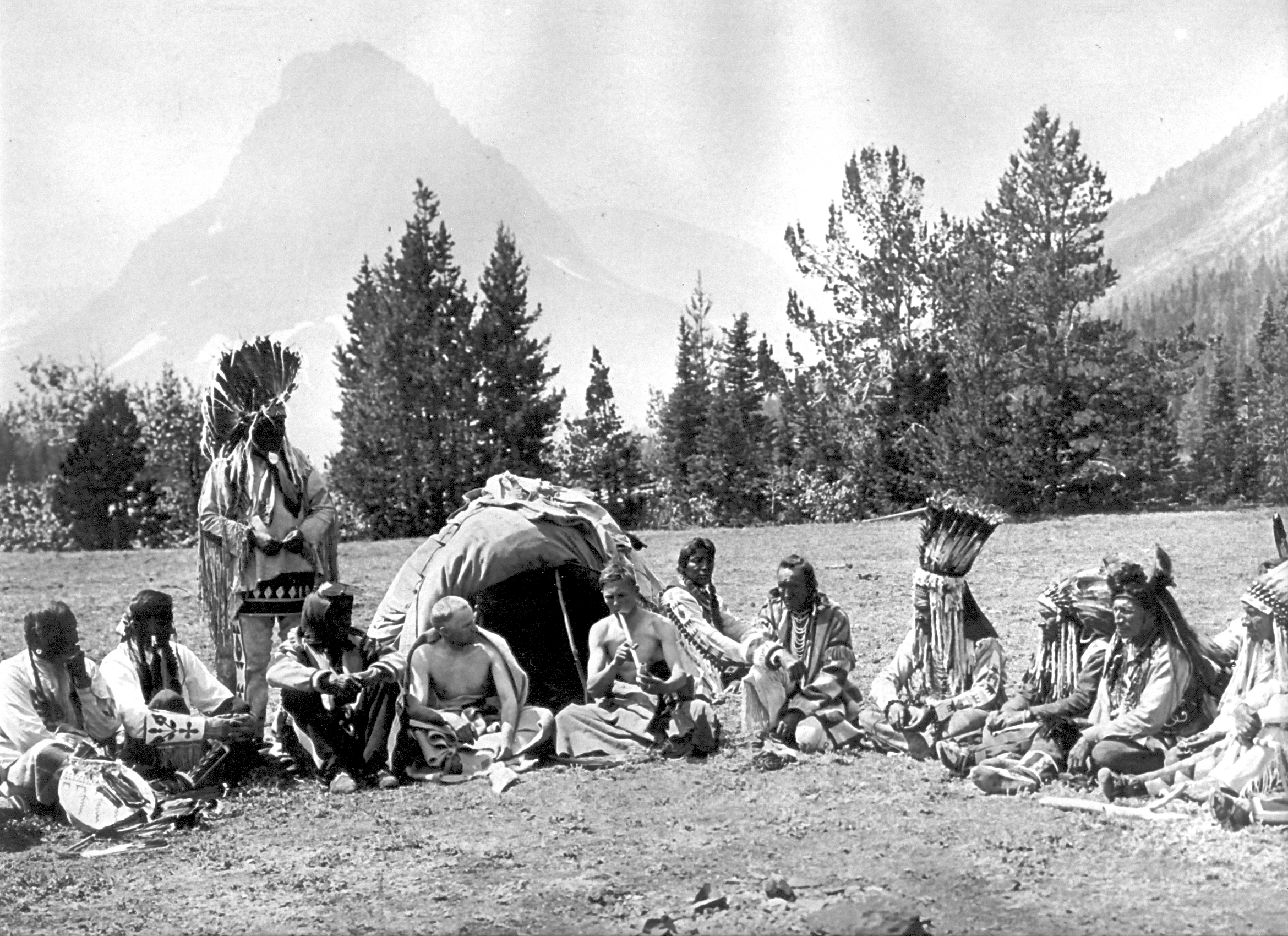 Picture of Harry Behn smoking the peace pipe with members of the Blackfoot tribe in Glacier National Park.